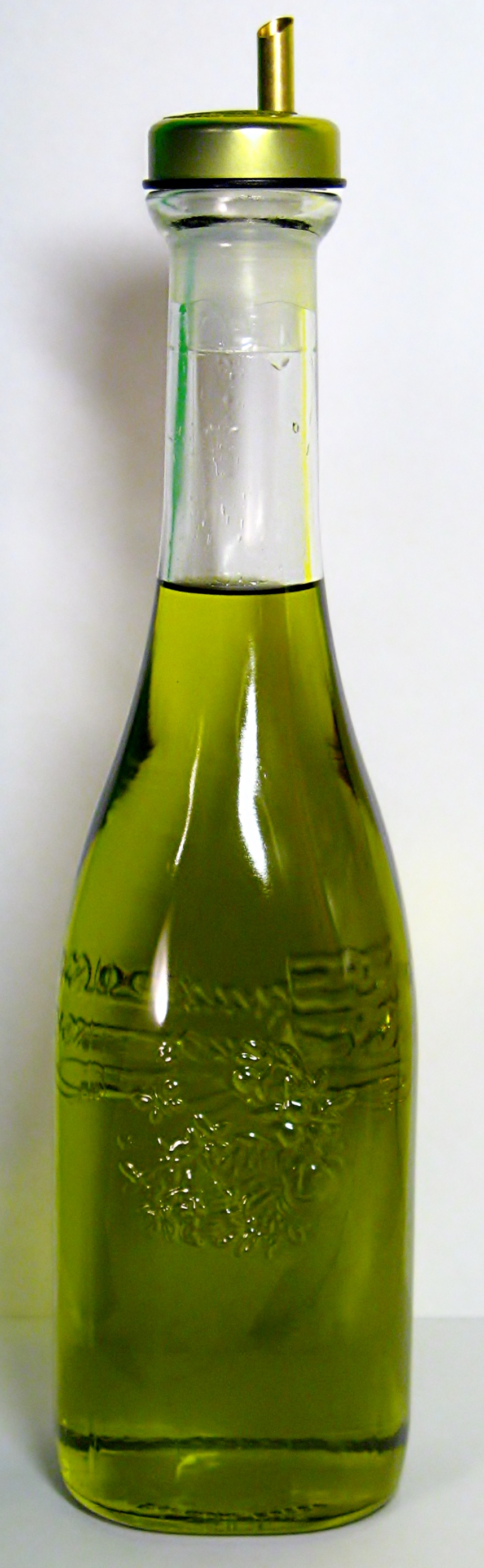 Italian olive oil, both oil and an oil bottle were bought by myself in the city of Manerba del Garda (Northern Italy, at the lake Garda)